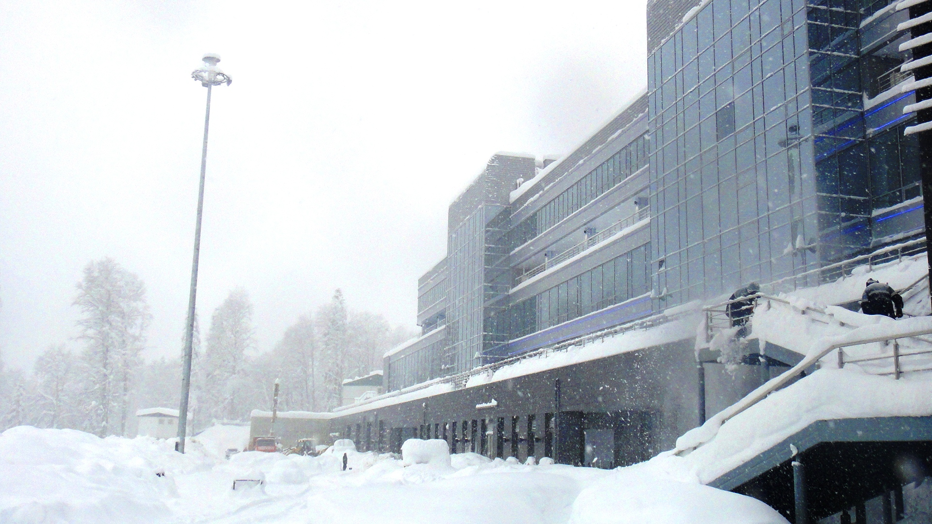 Biathlon stadium